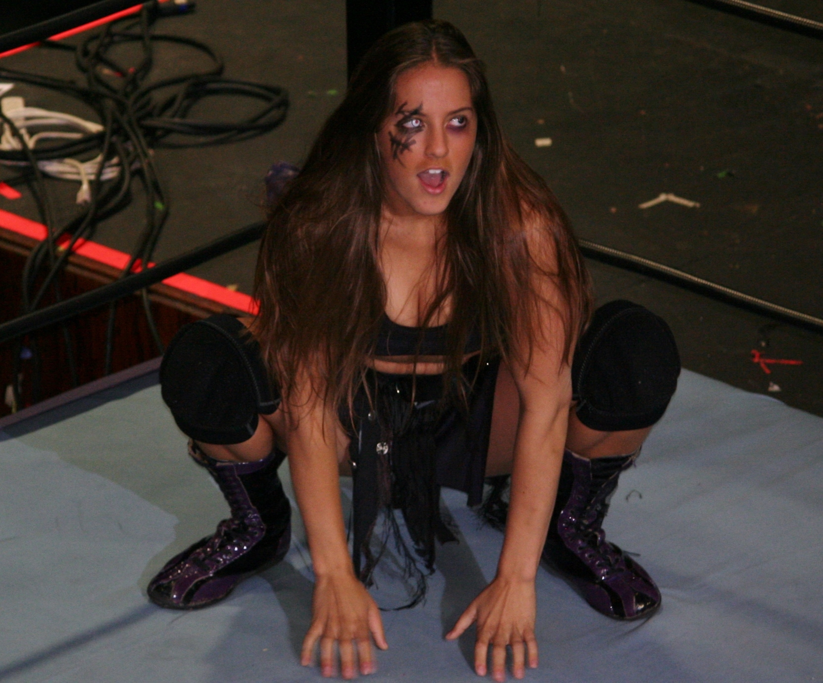 "Crazy" Mary Dobson at the Queens of Combat Winston Salem, NC June 14th 2015